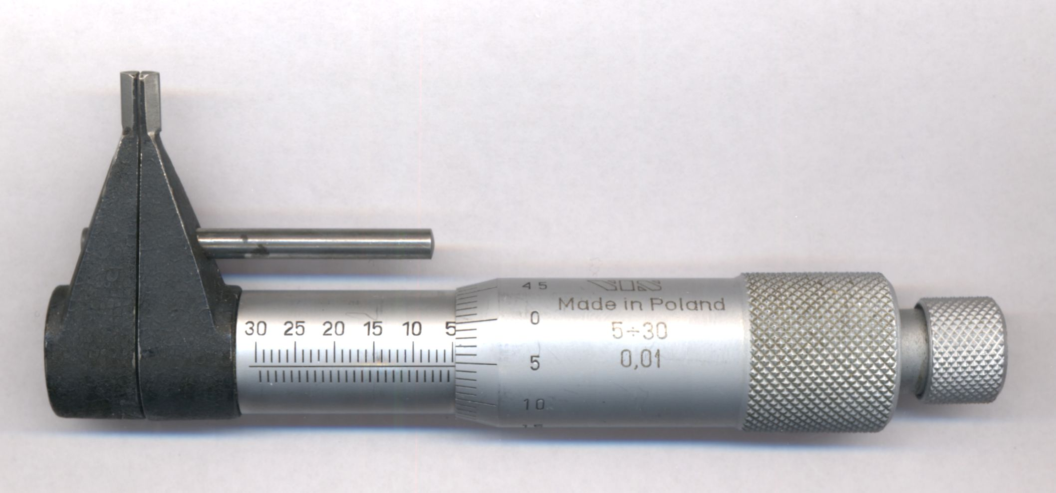 Inner micrometer range 5-30 mm made in Poland